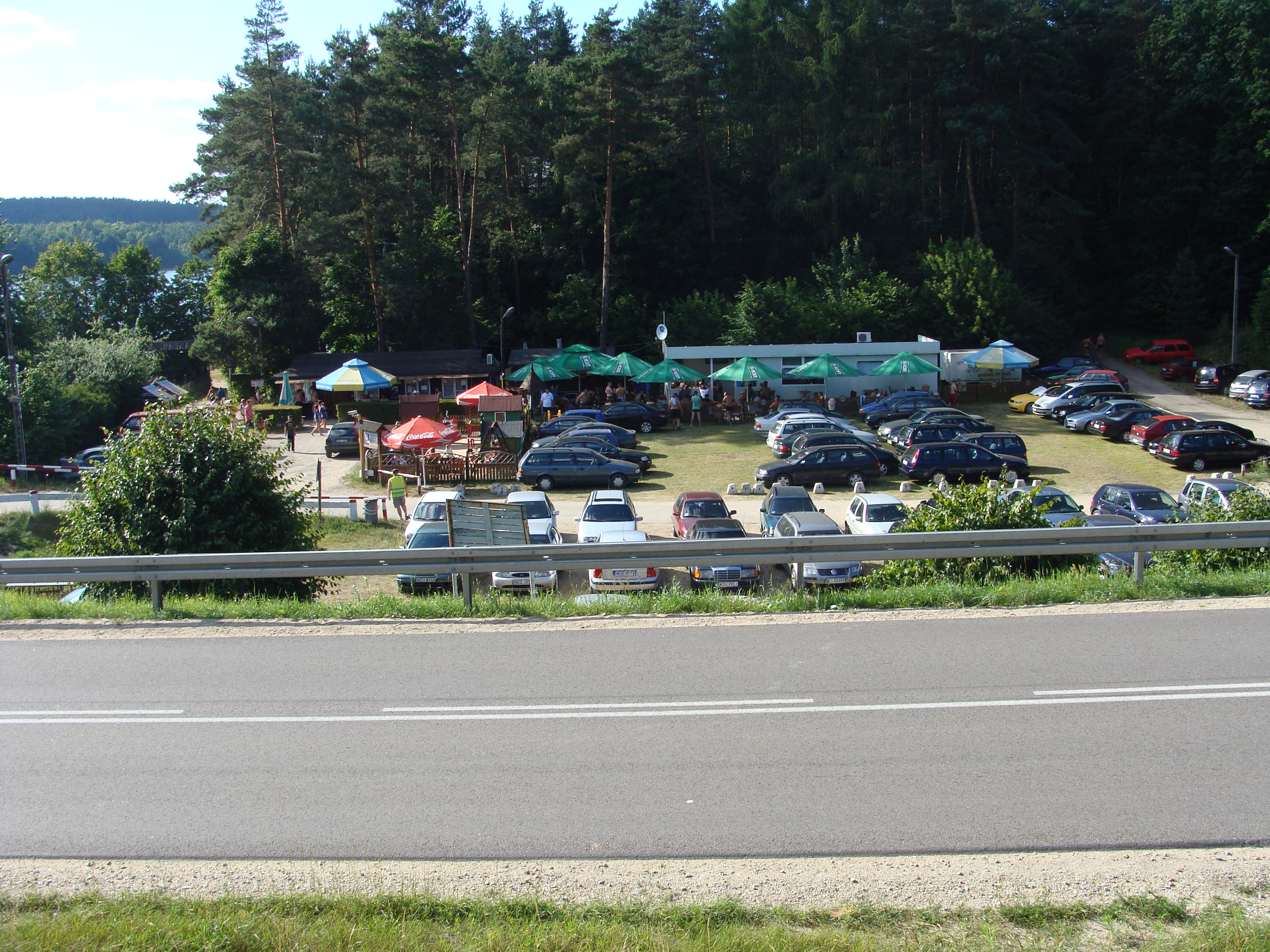 Polish road no 544 between Brodnica and Lidzbark nearby Piaseczno lake.